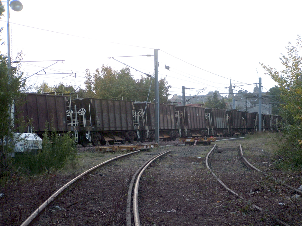 Former junction between the Edinburgh, Leith and Granton line and the East Coast Mainline, just east of Waverley Station.